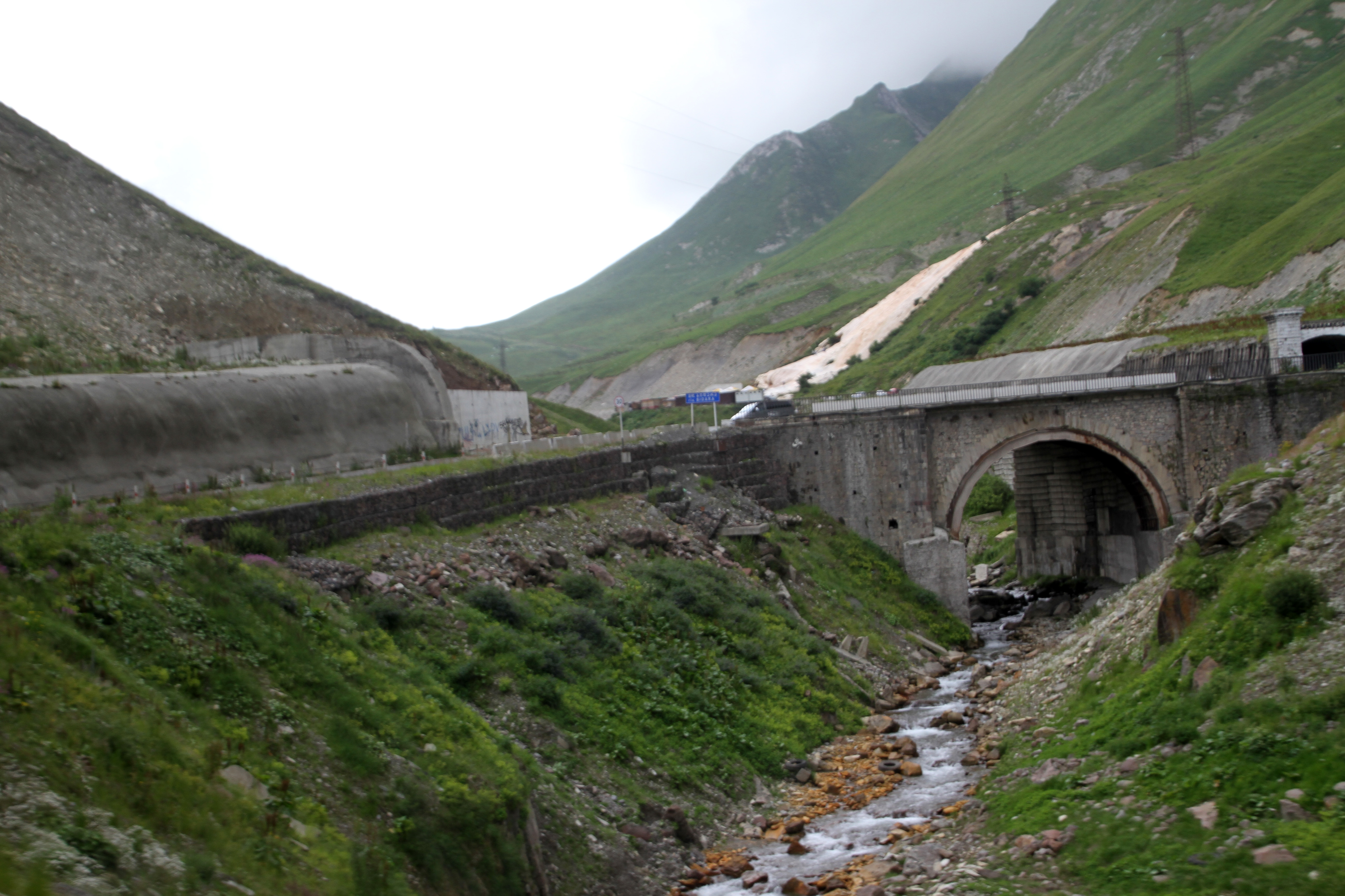 Military Road of Georgia